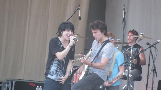 Mitchel Musso performing at the Taste of Chicago.